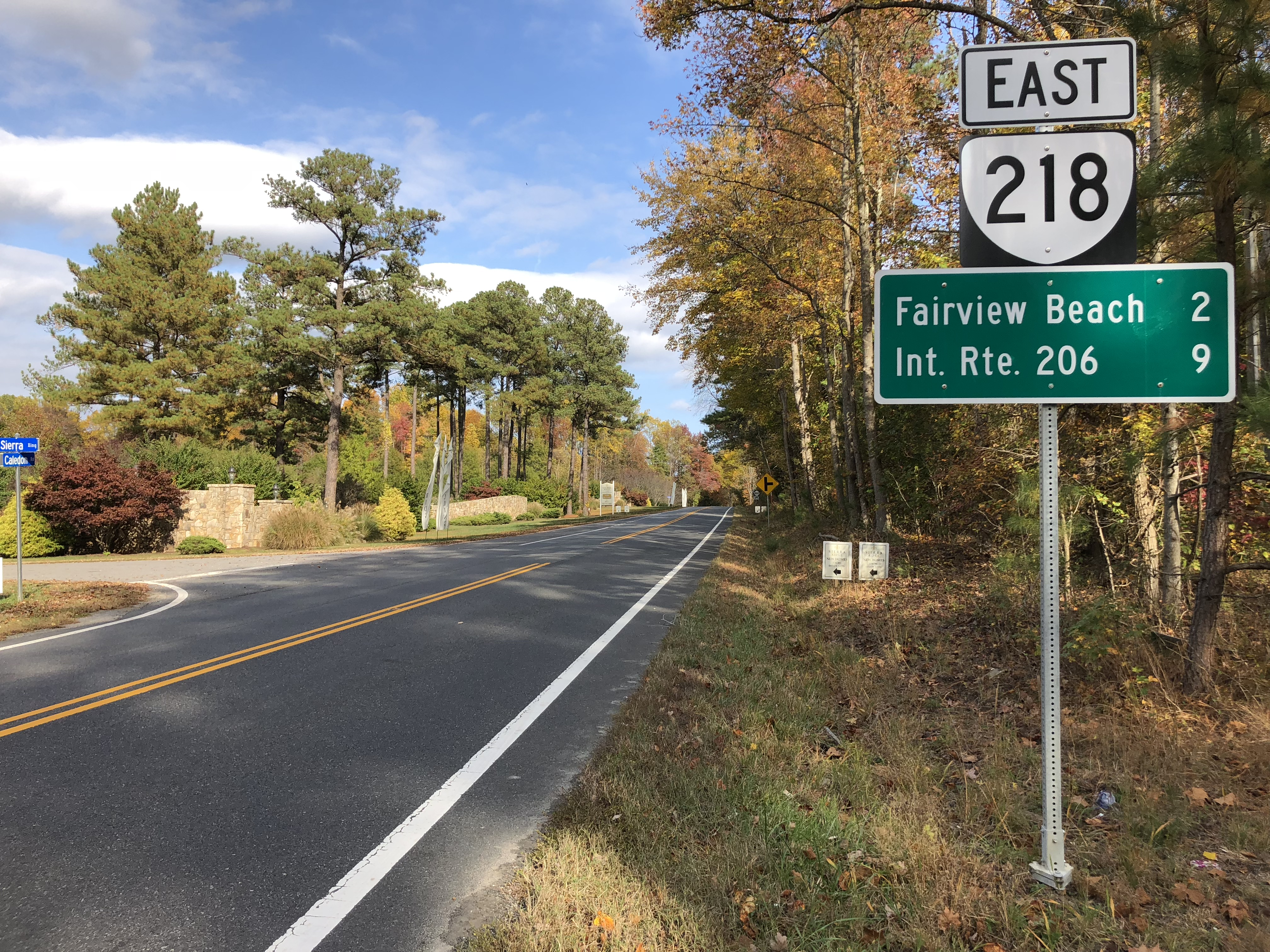 View east along Virginia State Route 218 (Caledon Road) between Vassar Drive and Sierra Crossing in Mustoe, King George County, Virginia